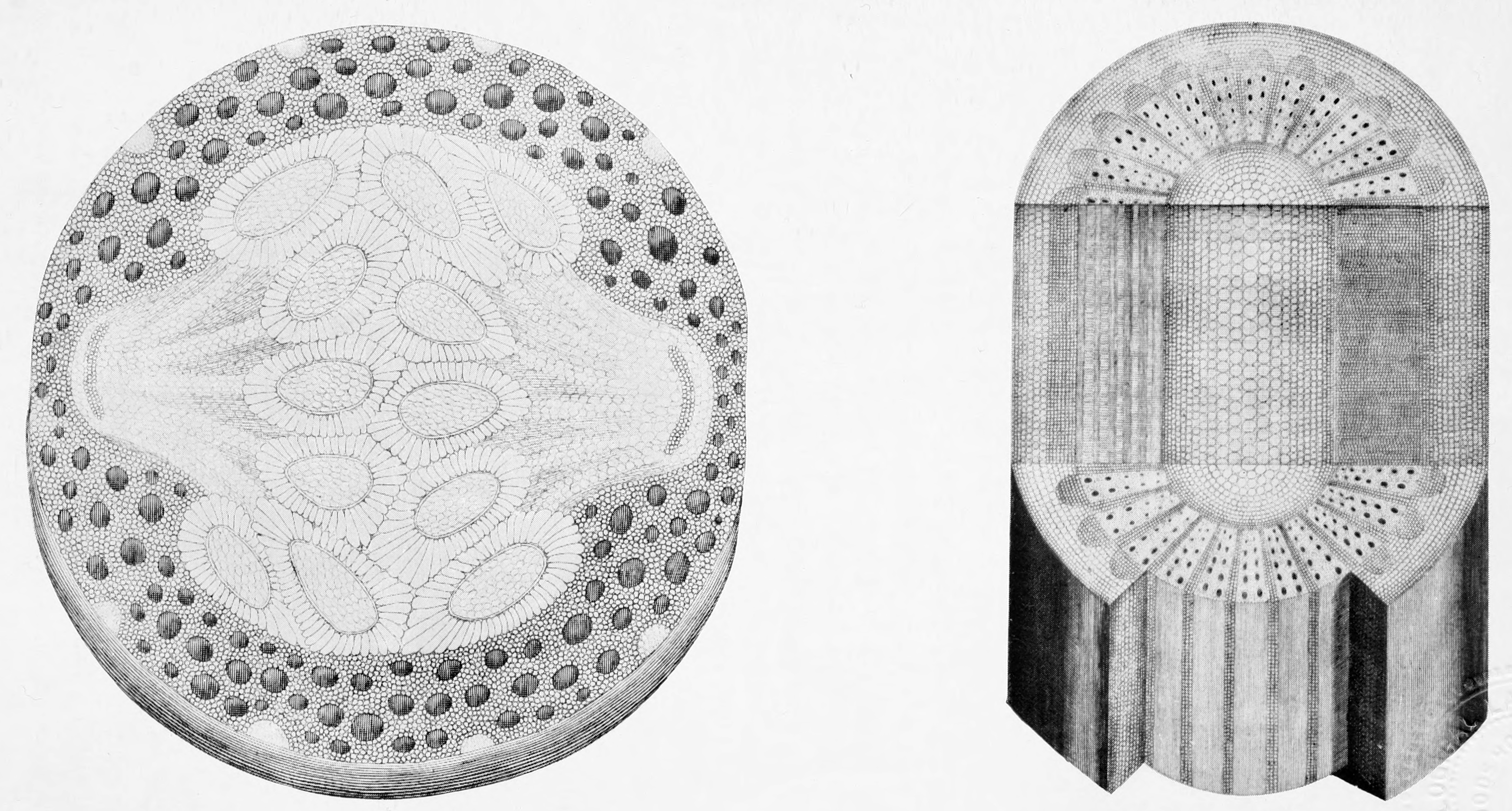 Copy of a page from Nehemiah Grew's Anatomy of Plants.